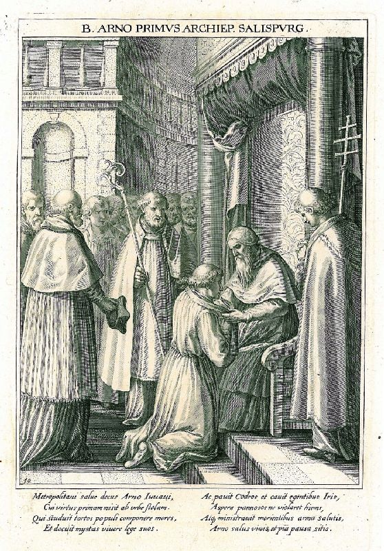 Arno of Salzburg made bishop of Salzburg by Pope Leo III. Etching by Aegidius Sadeler, c.1600.